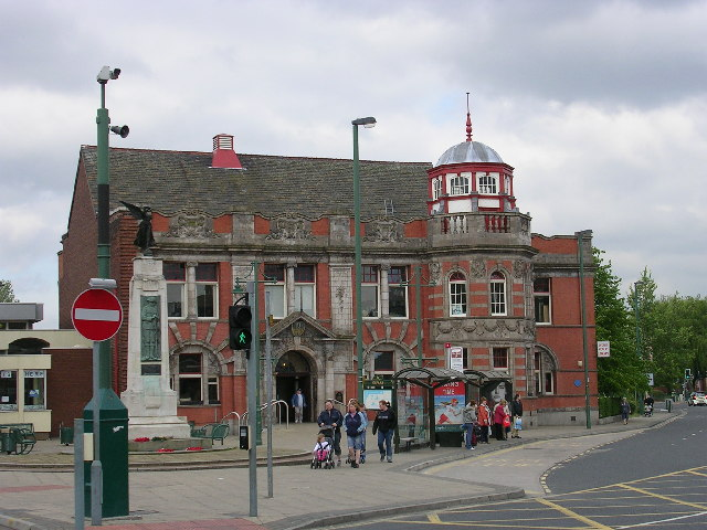 Eccles Library. The library and war memorial occupy the centre of this square.